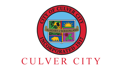 This is the official image of the Culver City flag.